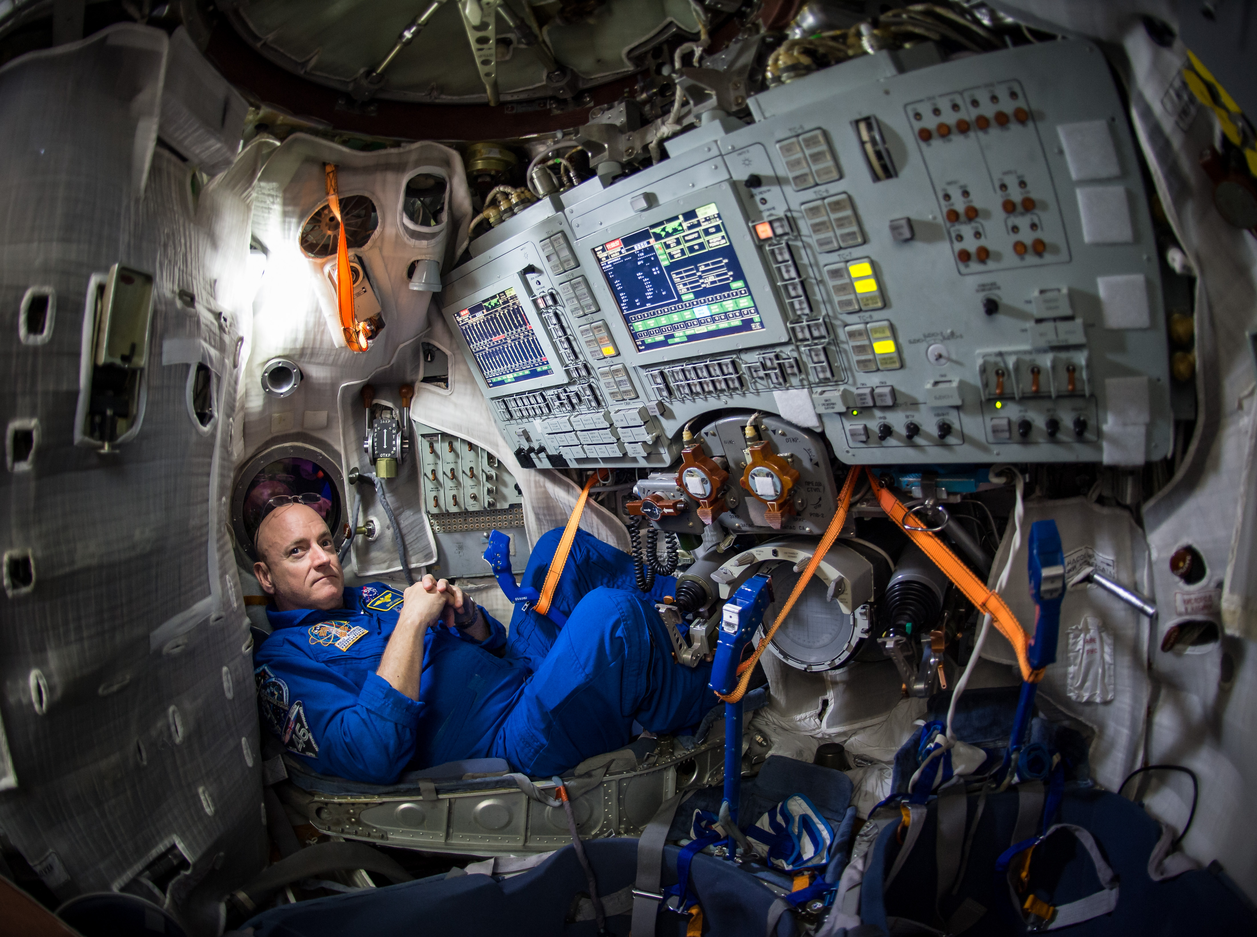 NASA Astronaut Scott Kelly is seen inside a Soyuz simulator at the Gagarin Cosmonaut Training Center (GCTC), Wednesday, March 4, 2015 in Star City, Russia. Kelly, along with Expedition 43 Russian cosmonaut Mikhail Kornienko of the Russian Federal Space Agency (Roscosmos), and Russian cosmonaut Gennady Padalka of Roscosmos were at GCTC for the second day of qualification exams in preparation for their launch to the International Space Station onboard a Soyuz TMA-16M spacecraft from the Baikonur Cosmodrome in Kazakhstan March 28, Kazakh time. As the one-year crew, Kelly and Kornienko will return to Earth on Soyuz TMA-18M in March 2016.